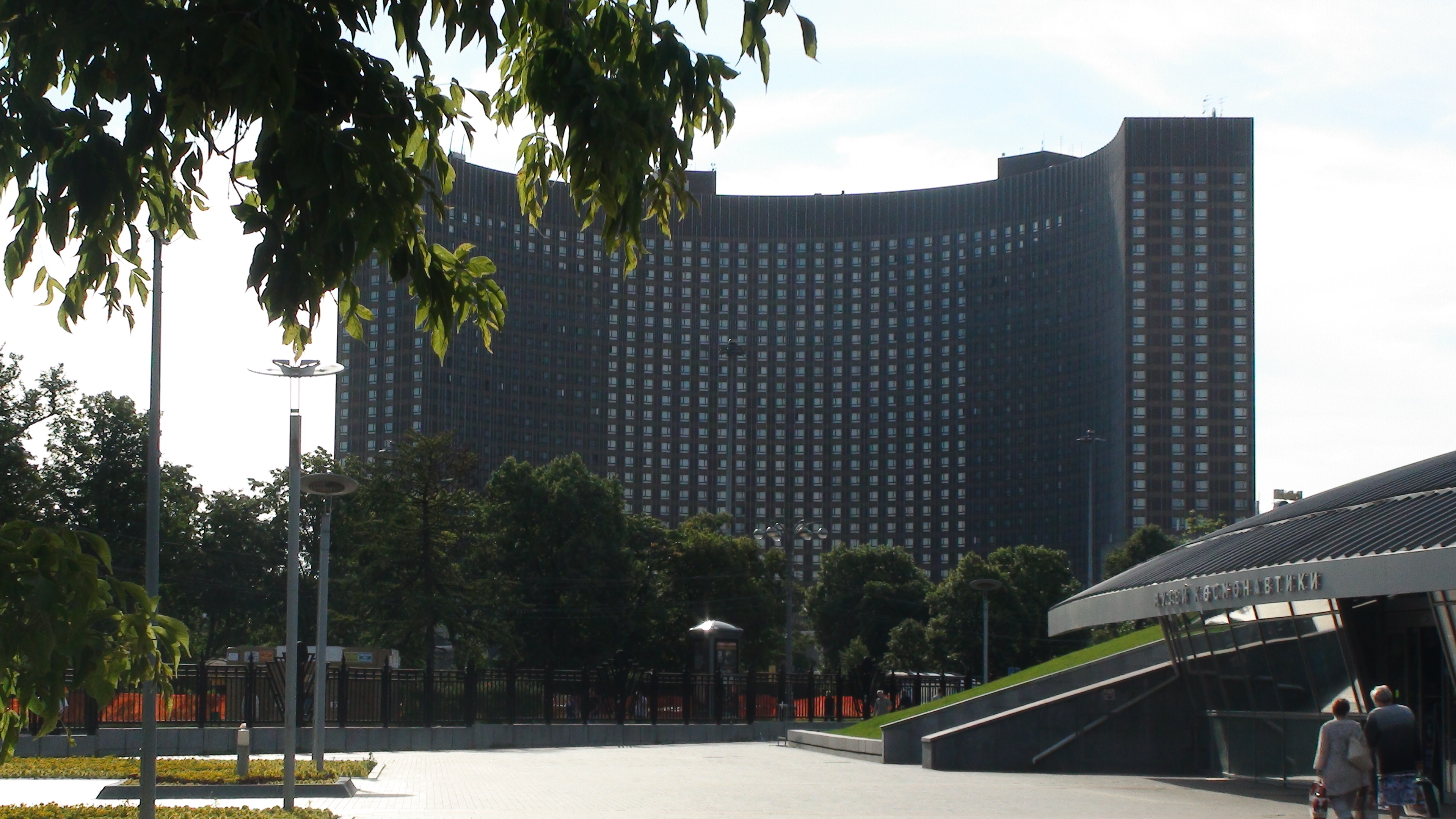 Гостиница Космос